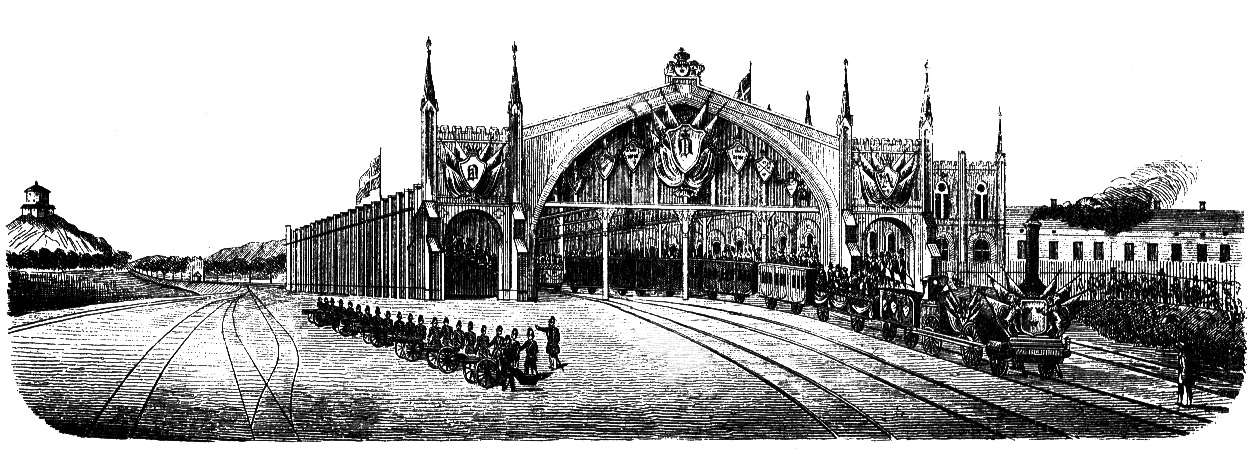 The inauguration of Gothenburg (central) station. Oktober 4, 1858